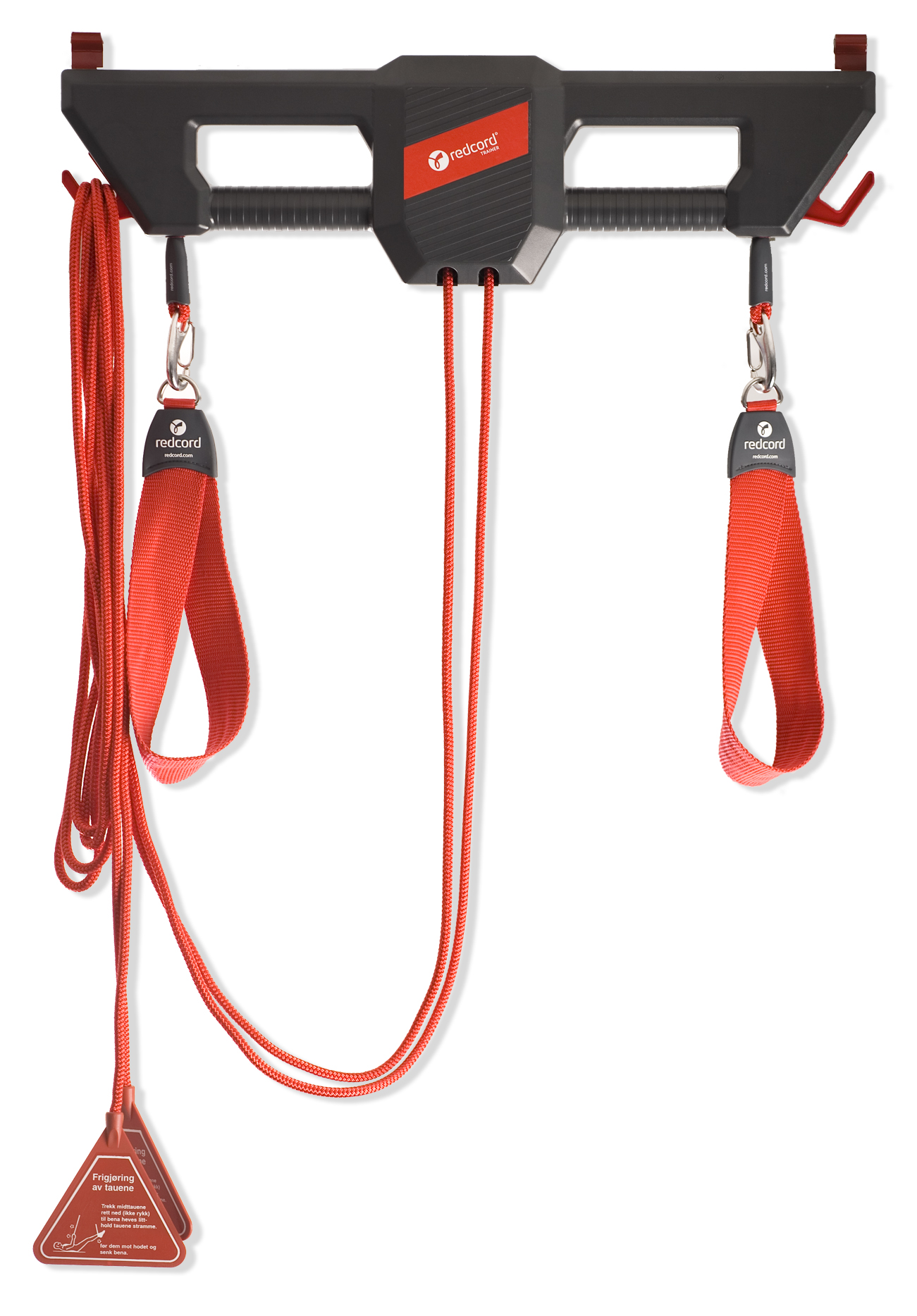 Redcord Trainer